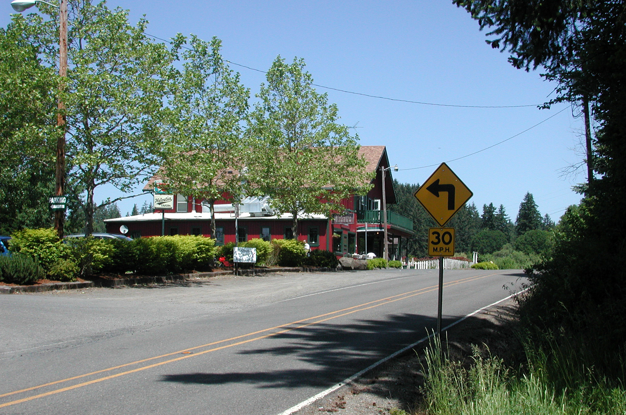 Helvetia Tavern along Helvetia Road in the unincorporated community of Helvetia, Oregon, United States. The view is to the north.